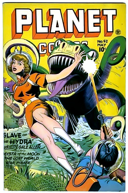 Cover scan of Planet Comics, No. 42, Fiction House, May 1946. Joe Doolin cover.